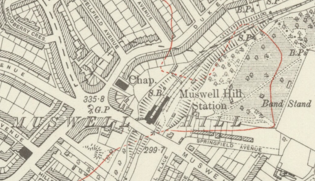 Muswell Hill station in north London on a 1920 Ordnance Survey map.